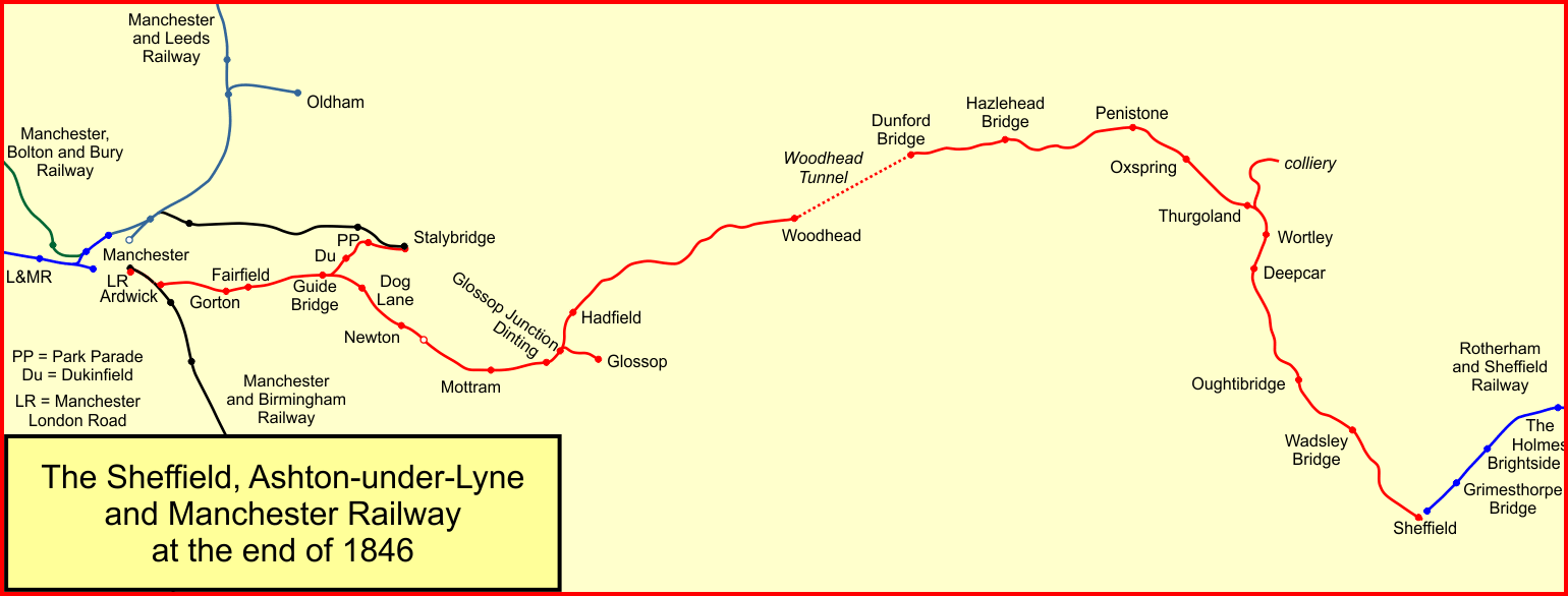 System map of the Sheffield, Ashton under Lyne and Manchester Railway, England, on the last day of its separate existence, 31 December 1846